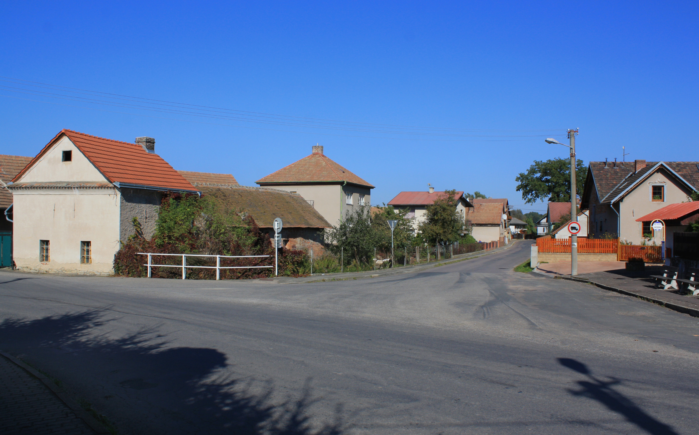 Middle part of Vejvanovice, Czech Republic